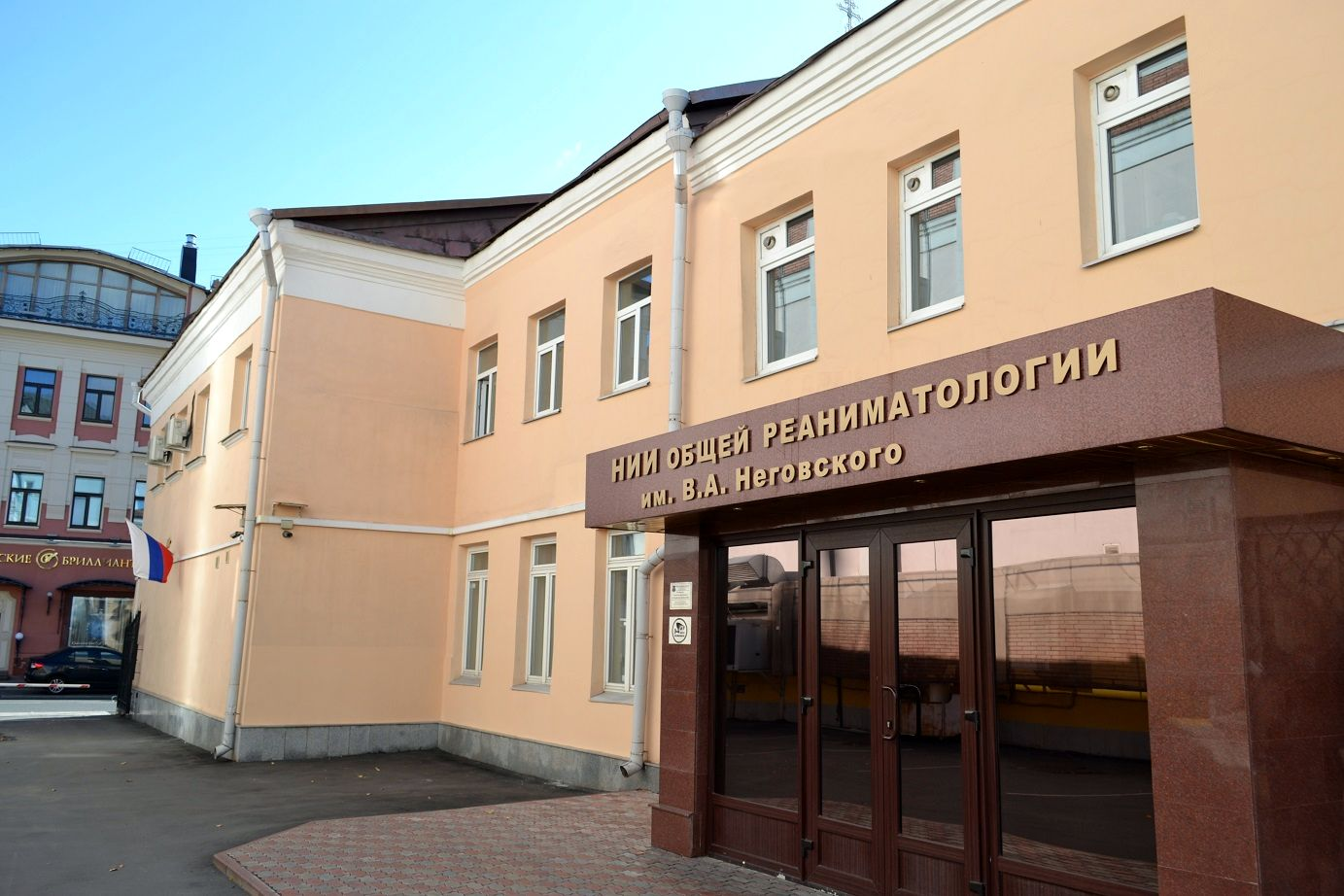 Photo of research institute of general reanimatology